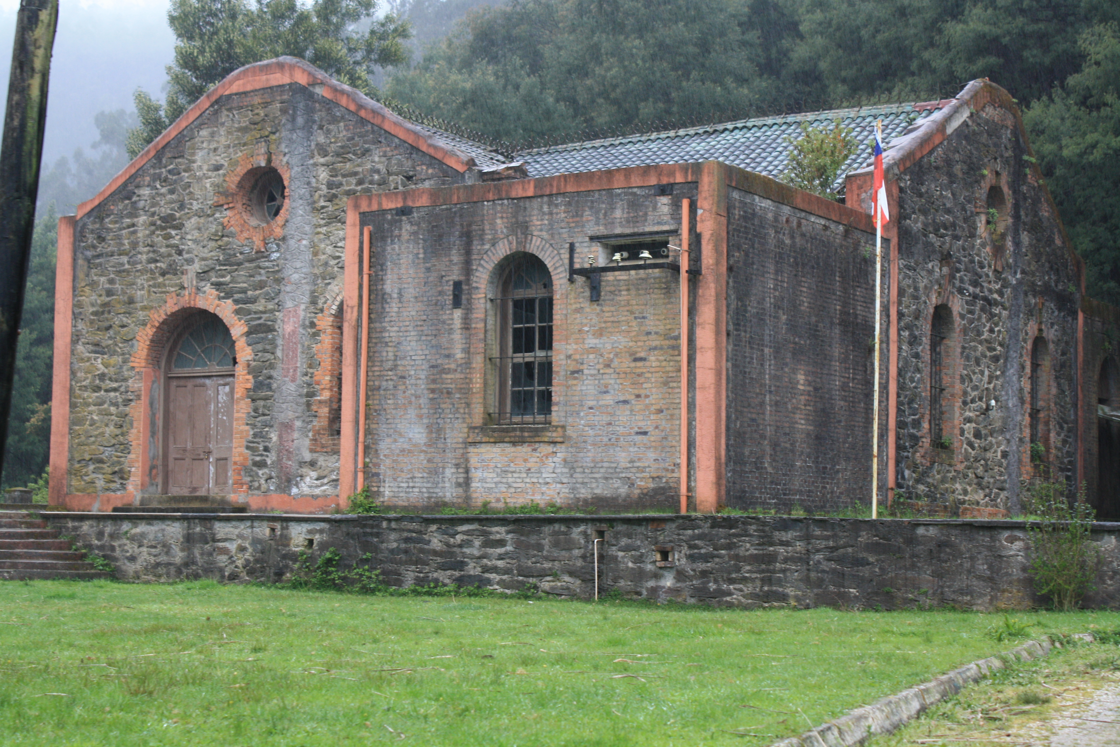 This is a photo of a national monument in Chile: 148